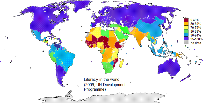 Literacy rate by country (2007/2008 UN Human Development Report)